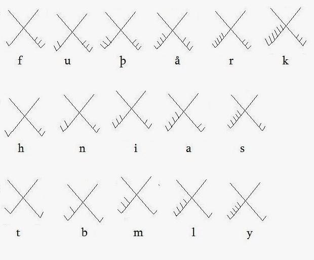 Tjaldrunir (secret runes)